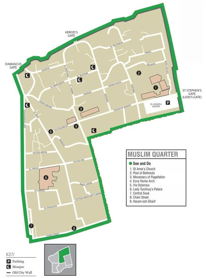 A map of Jerusalem's Muslim Quarter by David Bjorgen, taken from